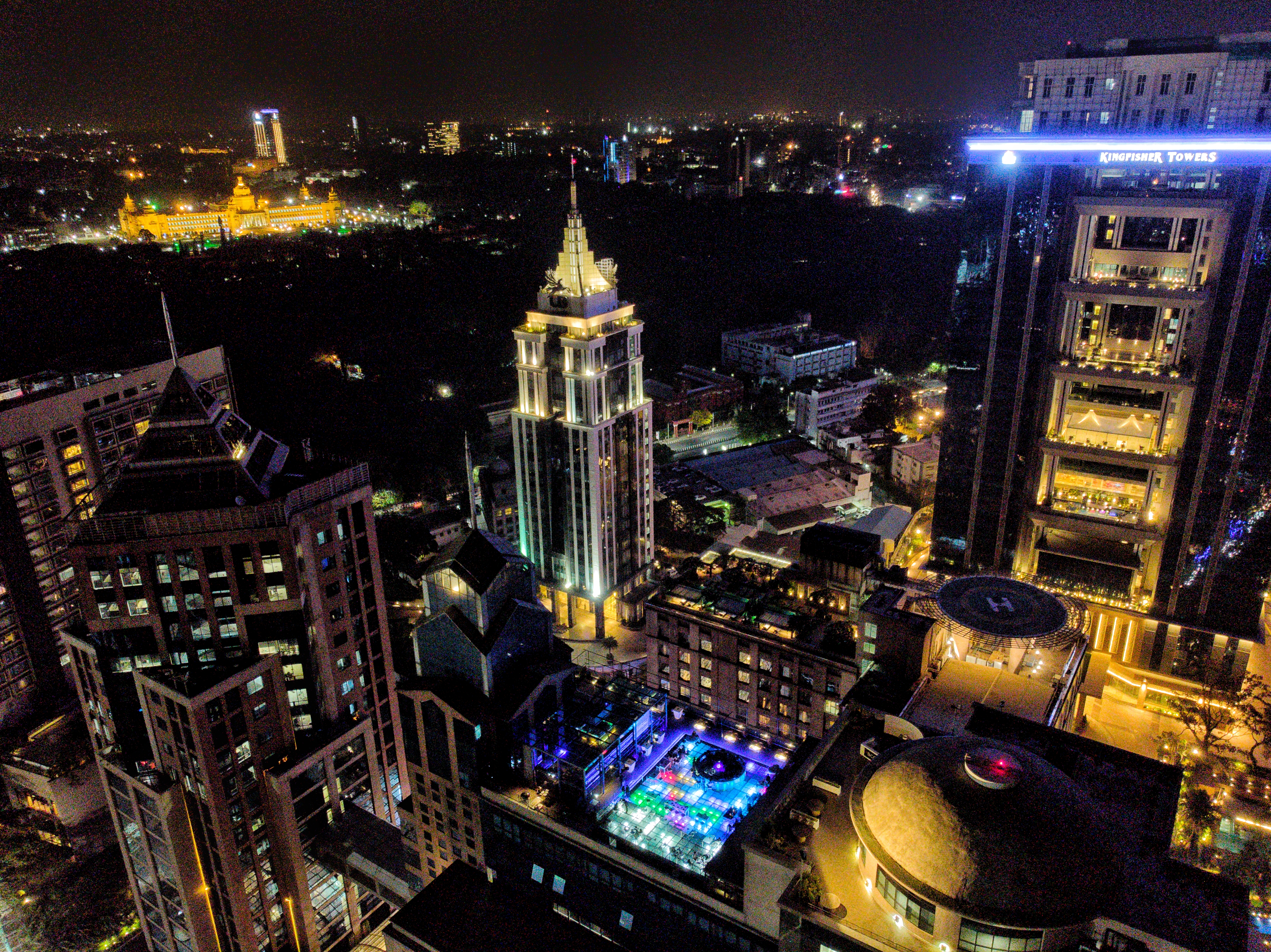 Aerial view of UB City at night.